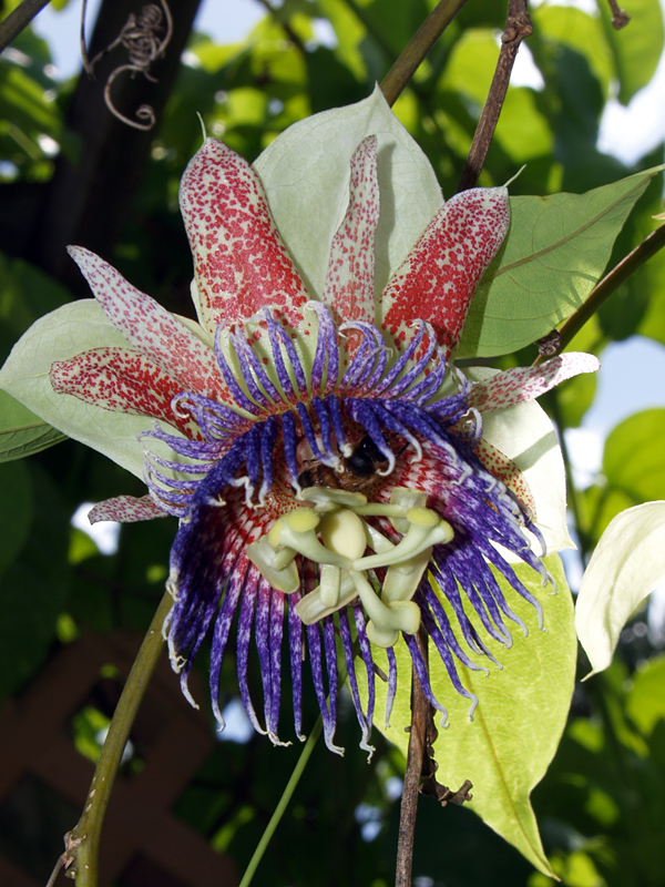 Maliformis.